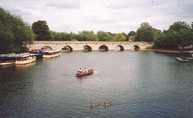 Clopton Bridge, Stratford-upon-Avon, England.